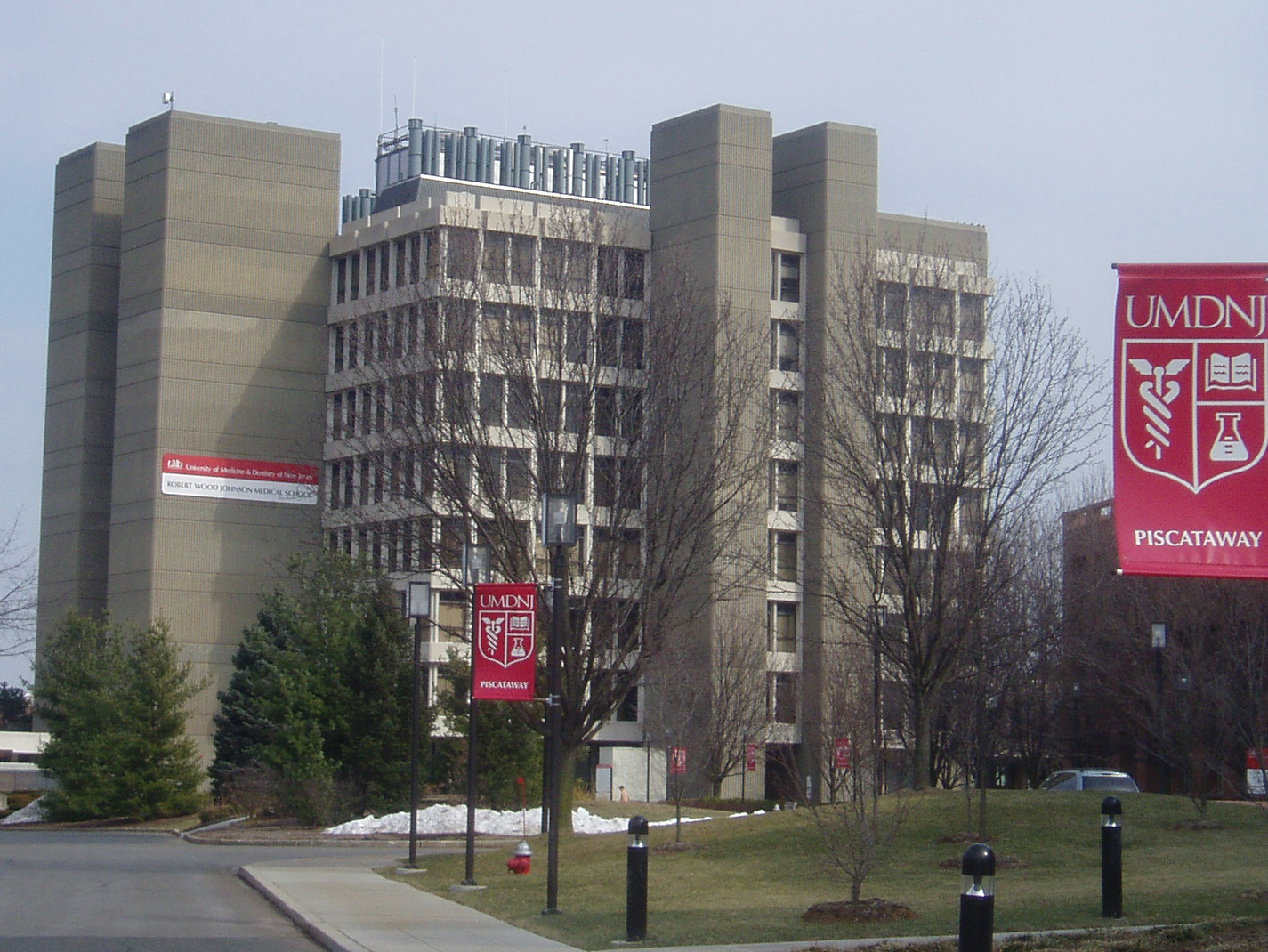 RWJMS Building (1966)